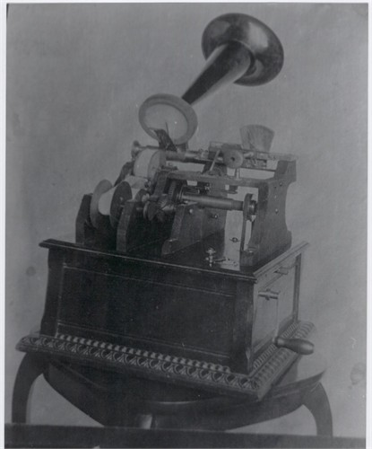 Shows the protoytype build between 1905 and 1908 of Dr. Goodale. The American Patent drawings are based on this machine (Patent 944,608.)